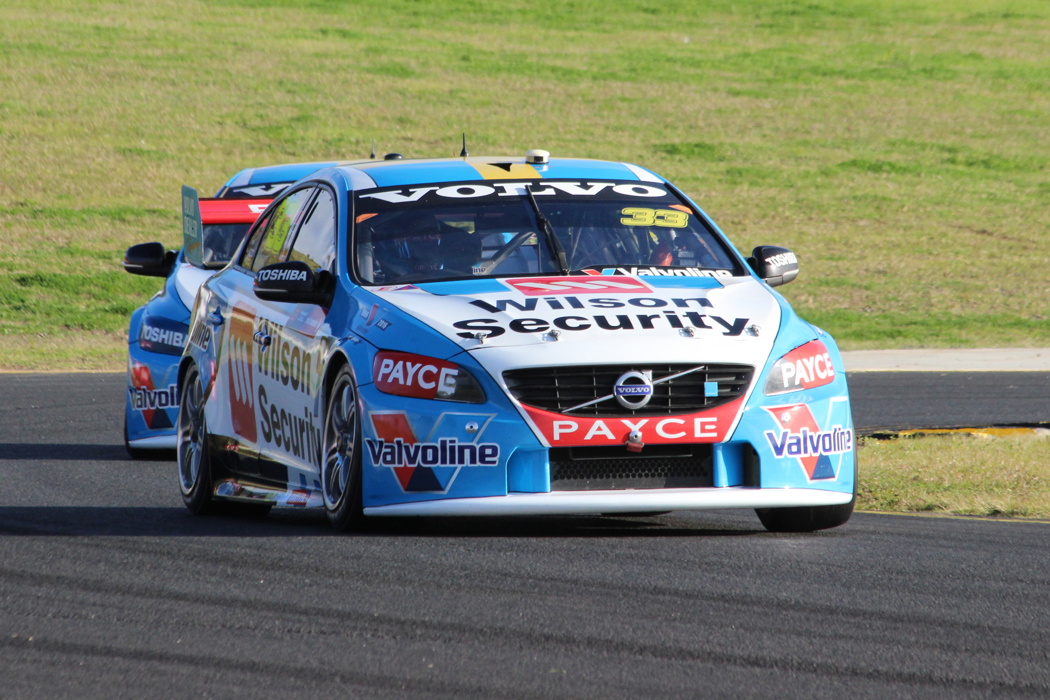 Scott McLaughlin (Garry Rogers Motorsport Volvo S60) during Practice 2 at the 2016 Red Rooster Sydney SuperSprint.